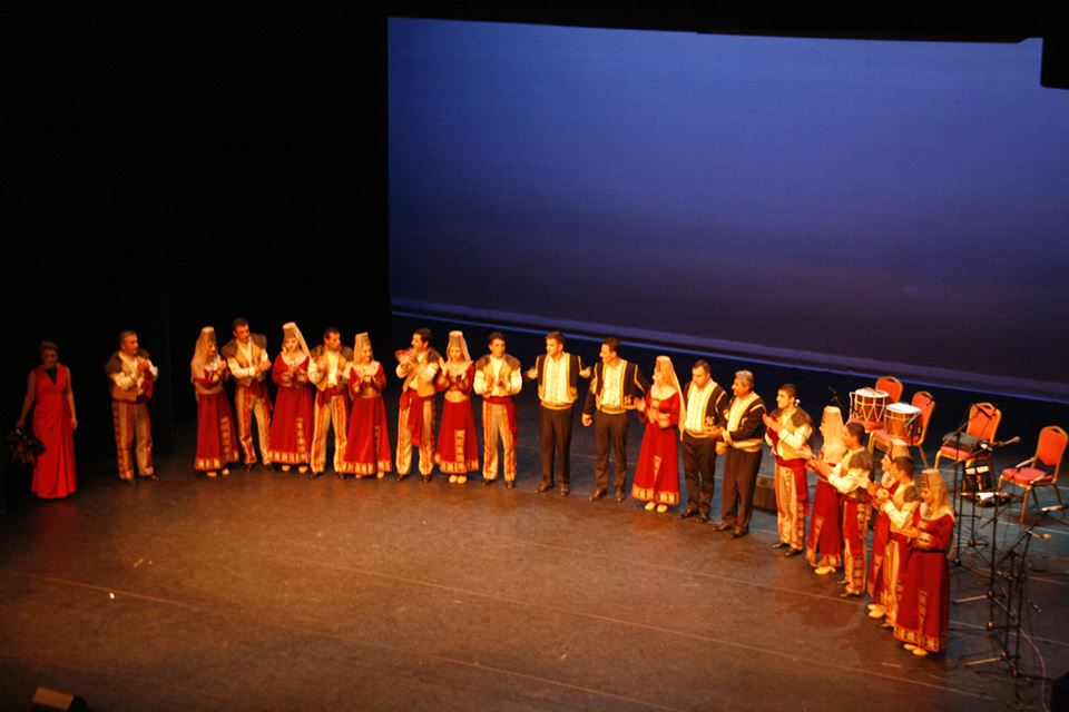 Karin Folk Dance and Song group